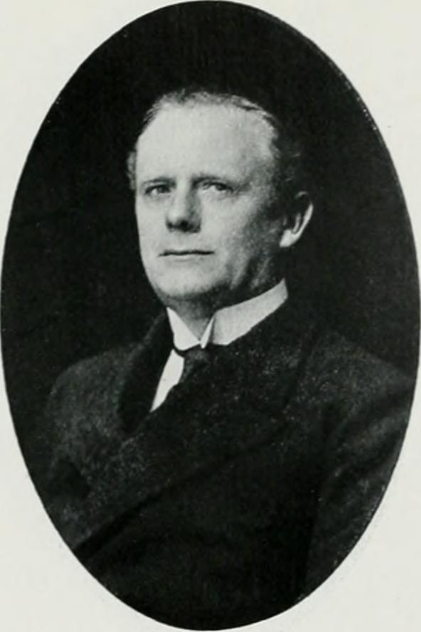 Title: Notable Londoners, an illustrated who's who of professional and business men Year: 1922 (1920s) Authors: Subjects: Publisher: London : London Publishing Agency Text Appearing Before Image: EMMANUEL J. Durant Educated Dulwich College. Admitted Associate 1887 and later elected a Fellow of the Institute of Chartered Accountants. Own practice established 1S90. LongconnectioEi with City Commercial, Civil and .Administrative life. Member Court Common Council, City oi London;Liveryman of Cooper Company ; Member of Council, the Japan Society; late President Lnited Wards Club : a Vice-President of The Langbourn Ward Club; Member of the Court of Assistants of both the City Livery Club and of the Guild of Freemen; Member of the Council and of the Executive Committee of the City of London Conservative Association; a Founder of Primrose League (City). Adii---33 : 152, Fenchurch Street, E.C.3. (Photo: Miles & Kaye) Text Appearing After Image: MAURICE JENKS, F.C.A., C.C. Mr. Jenks is principal partner in the well-known firm of Chartered Accountants, Maurice Jenks, Percival and Co.,with offices and connections in Ireland, South .Africa, andJapan. Mr. Jenks is a member of the City Corporation,and at various periftds has acted as Chairman of several of the Corporation Committees, including those of Corn, Coal, and Finance. He is Deputy Governor of the Irish Society and a Commissioner of Taxes for the City of London.He was educated privately, and his chief hobbies are golfing and motoring. Jlember : Devonshire, Gresham, and Stoke Poges Clubs. (Photo: Russell)